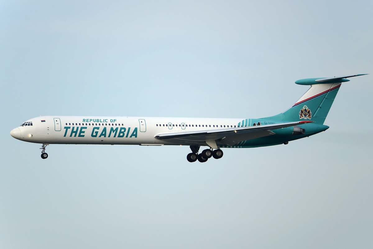 GAM 001 approaching to R/W 34L at Tokyo-Haneda Int'l Airport.